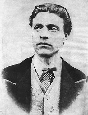 Vasil Levski, 1837-1873 Беларуская (тарашкевіца): Васил Левски, 1837-1873